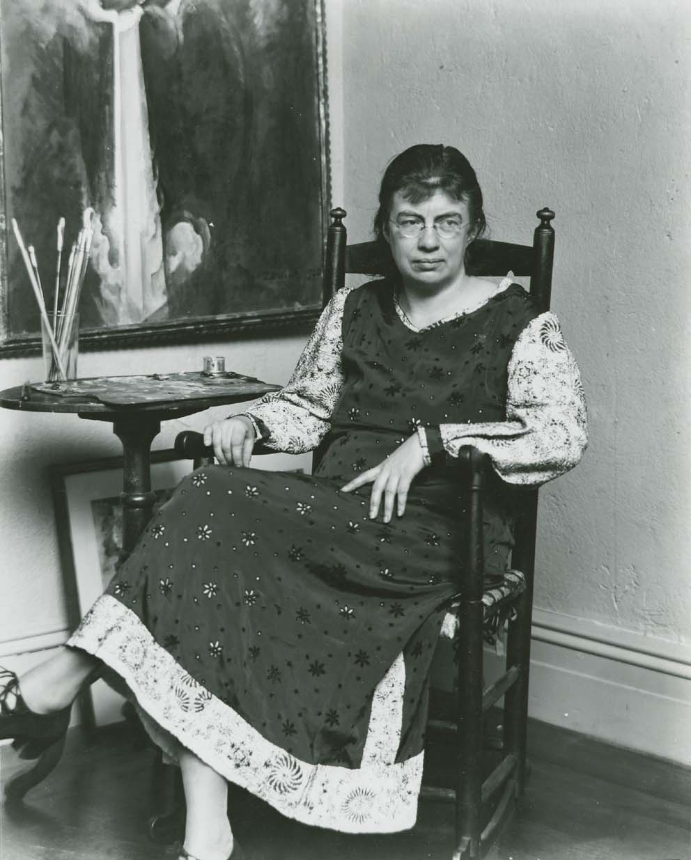 Description: Marguerite Thompson Zorach was an innovator of the American modernist movement. She helped introduce fauvist and cubist styles to the United States. After traveling extensively in Egypt, Palestine, India and Japan, she returned home to produce brilliantly colored Fauvist landscapes with thick black outlines. Her style developed and included more Cubist structure until she turned to creating embroidered tapestries after the birth of her two children. While she continued to paint and assist her husband, William Zorach, on larger projects, her main focus was on these tapestries. Creator/Photographer: Peter A. Juley & Son Medium: Black and white photographic print Dimensions: 8 in x 10 in Culture: American Persistent URL: [1] Repository: Archives of American Art Native nameArchives of American ArtParent institutionSmithsonian InstitutionLocationWashington, D.C.Coordinates38° 53′ 52.44″ N, 77° 01′ 21.72″ W Established1954Web page control : Q2860568 VIAF: 151134814 ISNI: 0000 0001 2185 0758 LCCN: n79065944 NLA: 35007823 GND: 1023549-8 WorldCat institution QS:P195,Q2860568 Collection: Peter A. Juley & Son Collection - The Peter A. Juley & Son Collection is comprised of 127,000 black-and-white photographic negatives documenting the works of more than 11,000 American artists. Throughout its long history, from 1896 to 1975, the Juley firm served as the largest and most respected fine arts photography firm in New York. The Juley Collection, acquired by the Smithsonian American Art Museum in 1975, constitutes a unique visual record of American art sometimes providing the only photographic documentation of altered, damaged, or lost works. Included in the collection are over 4,700 photographic portraits of artists. Accession number: J0029484